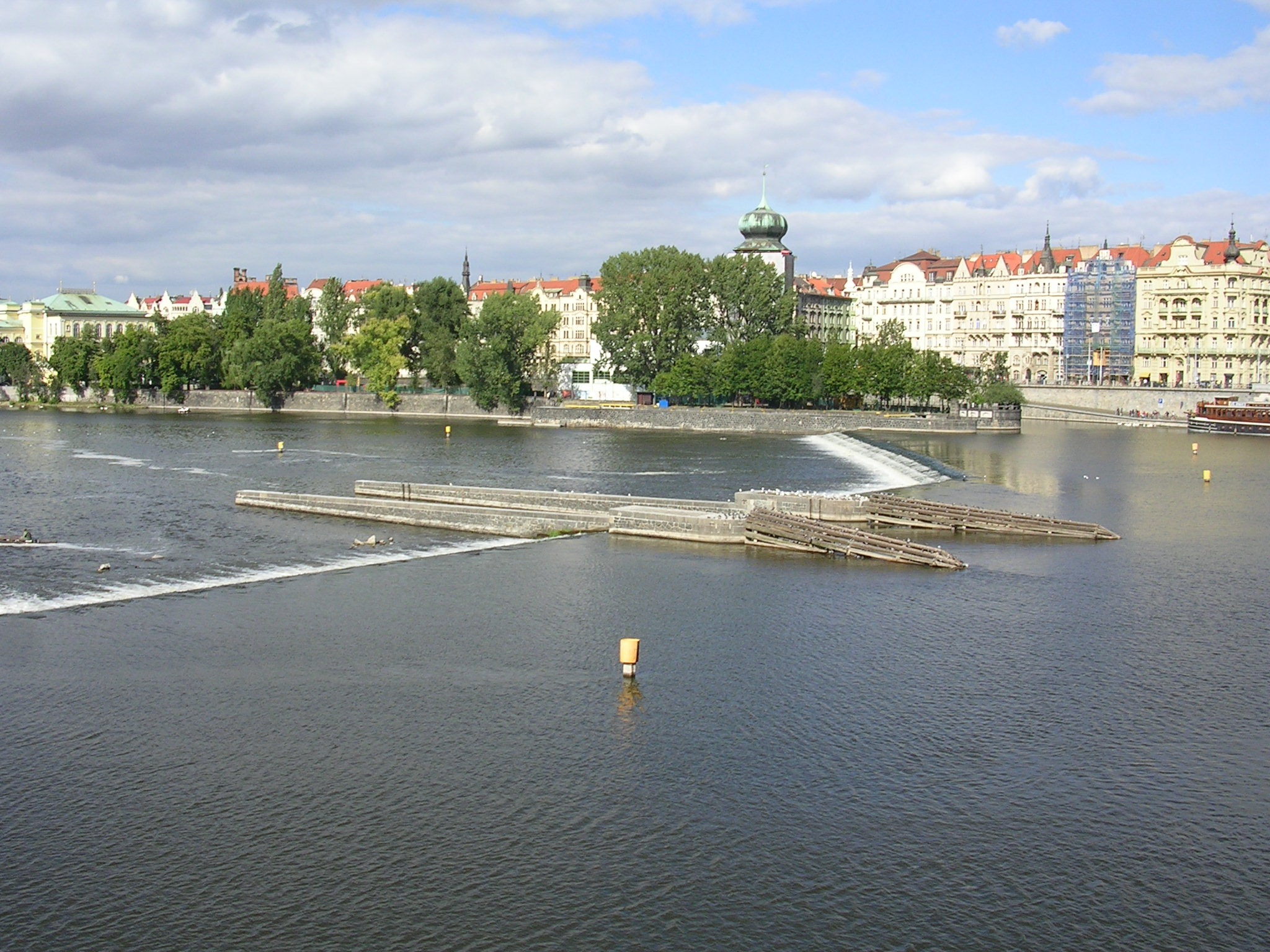 New Town, Prague, the Czech Republic.